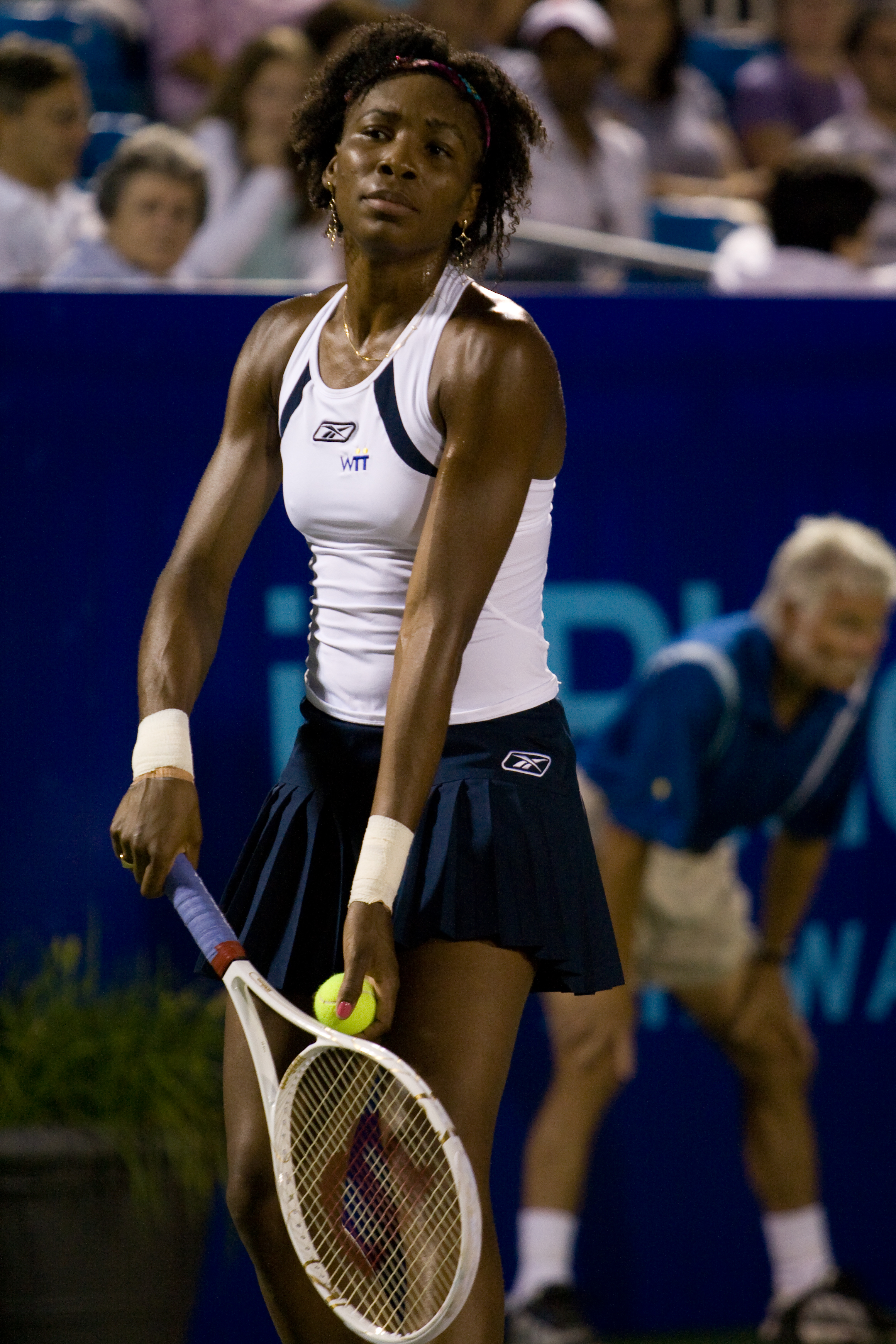 Venus Williams playing World Team Tennis in Mamaroneck, NY